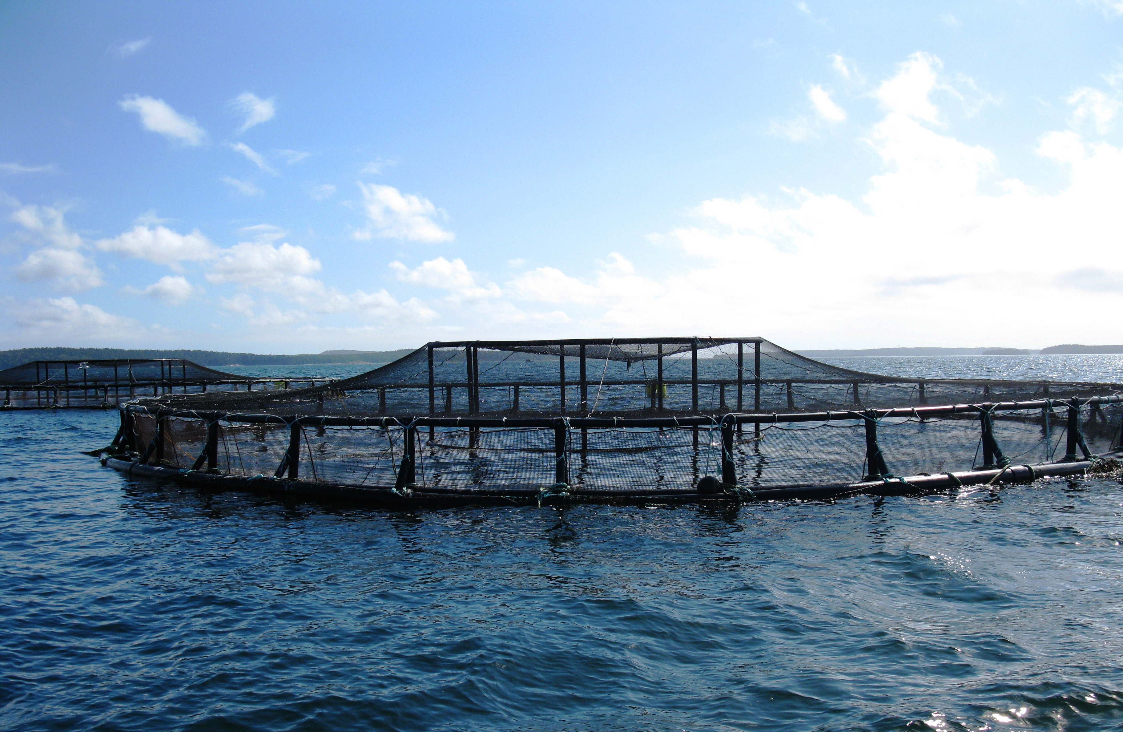 An open water fish farm pen in the ocean off the coast of Maine.